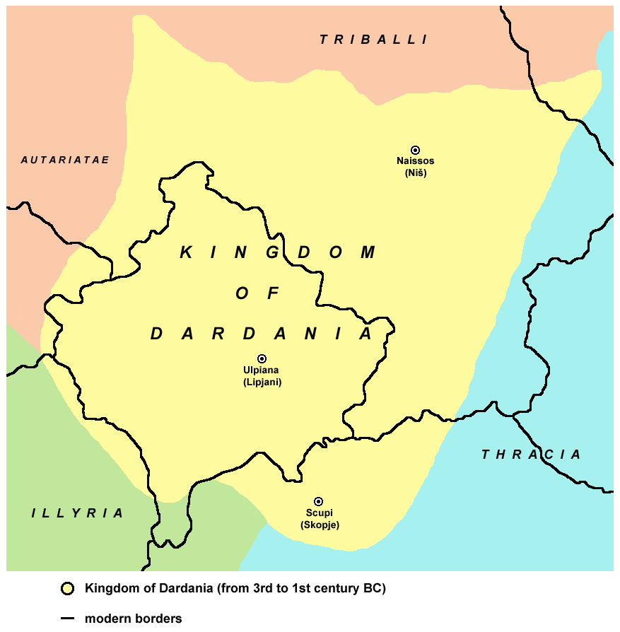 Ancient kingdom of Dardania that existed from 3rd to 1st century BC compared to modern borders.